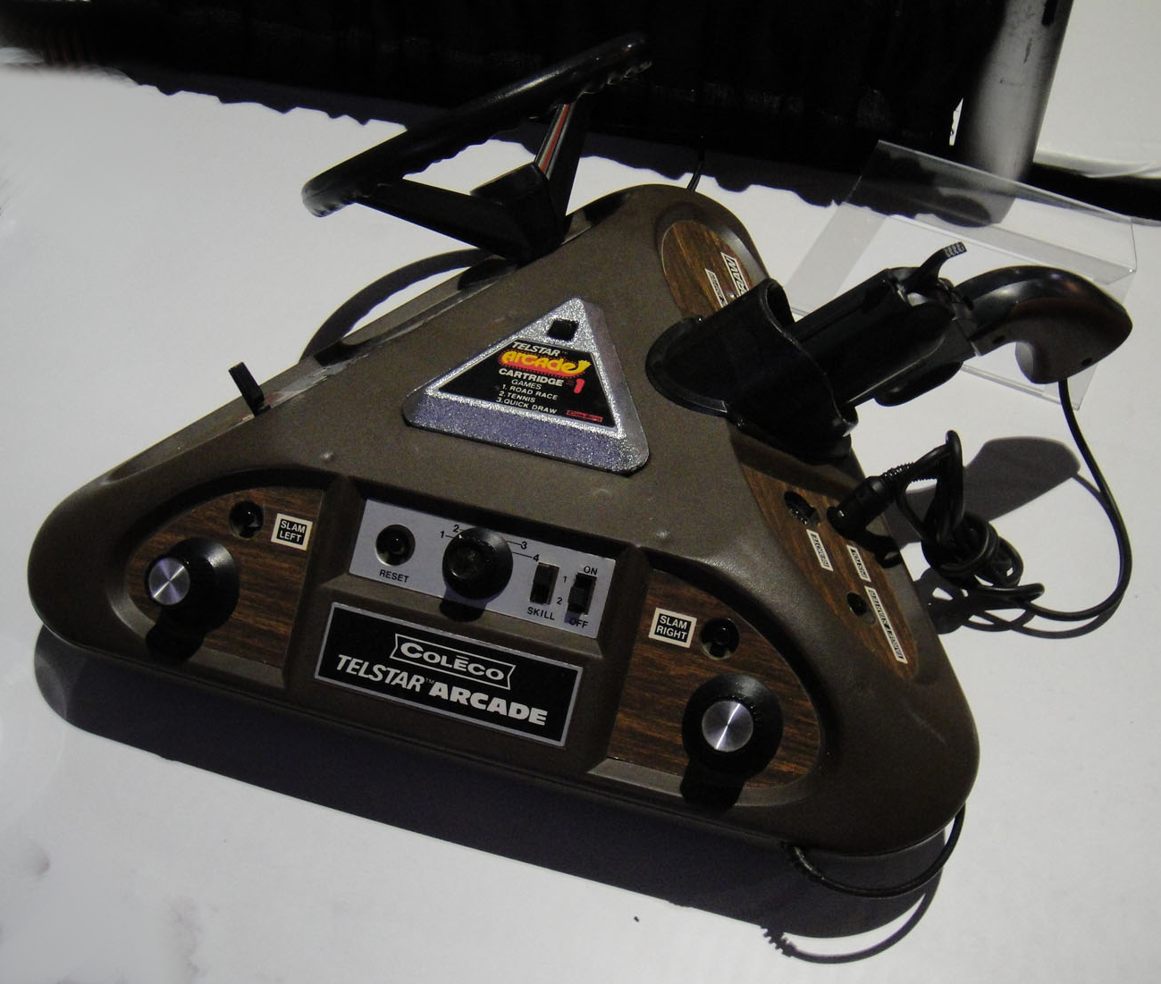 Coleco Telstar Arcade - First era console (simil-pong) based on the MPS-7600 chip of MOS Technology